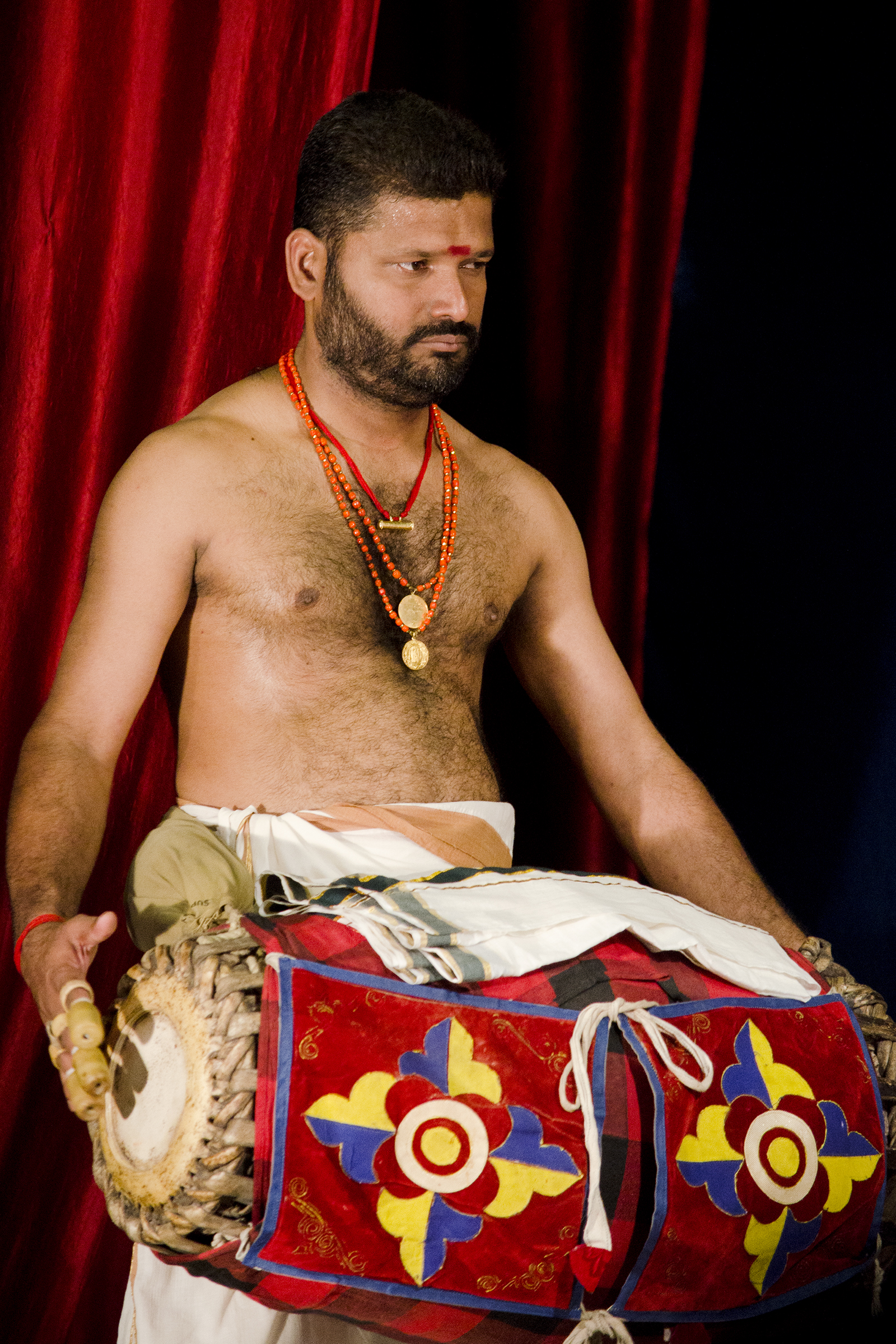 Drummer plying Madhalam